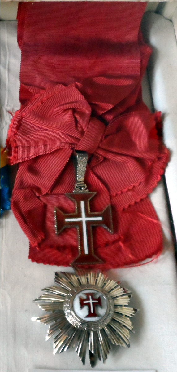 Star and riband of a Knight Grand Cross of the Order of Christ (Portugal).